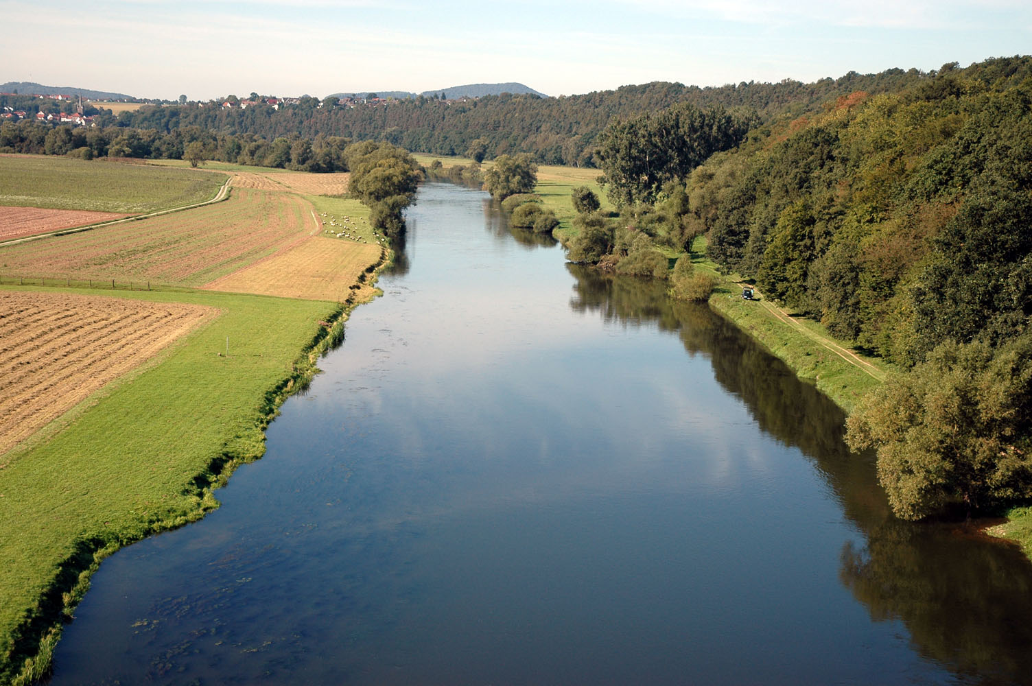 view at the Fulda valley as seen from the viaduct of Bebra-Kassel railway near Baunatal-Guntershausen.